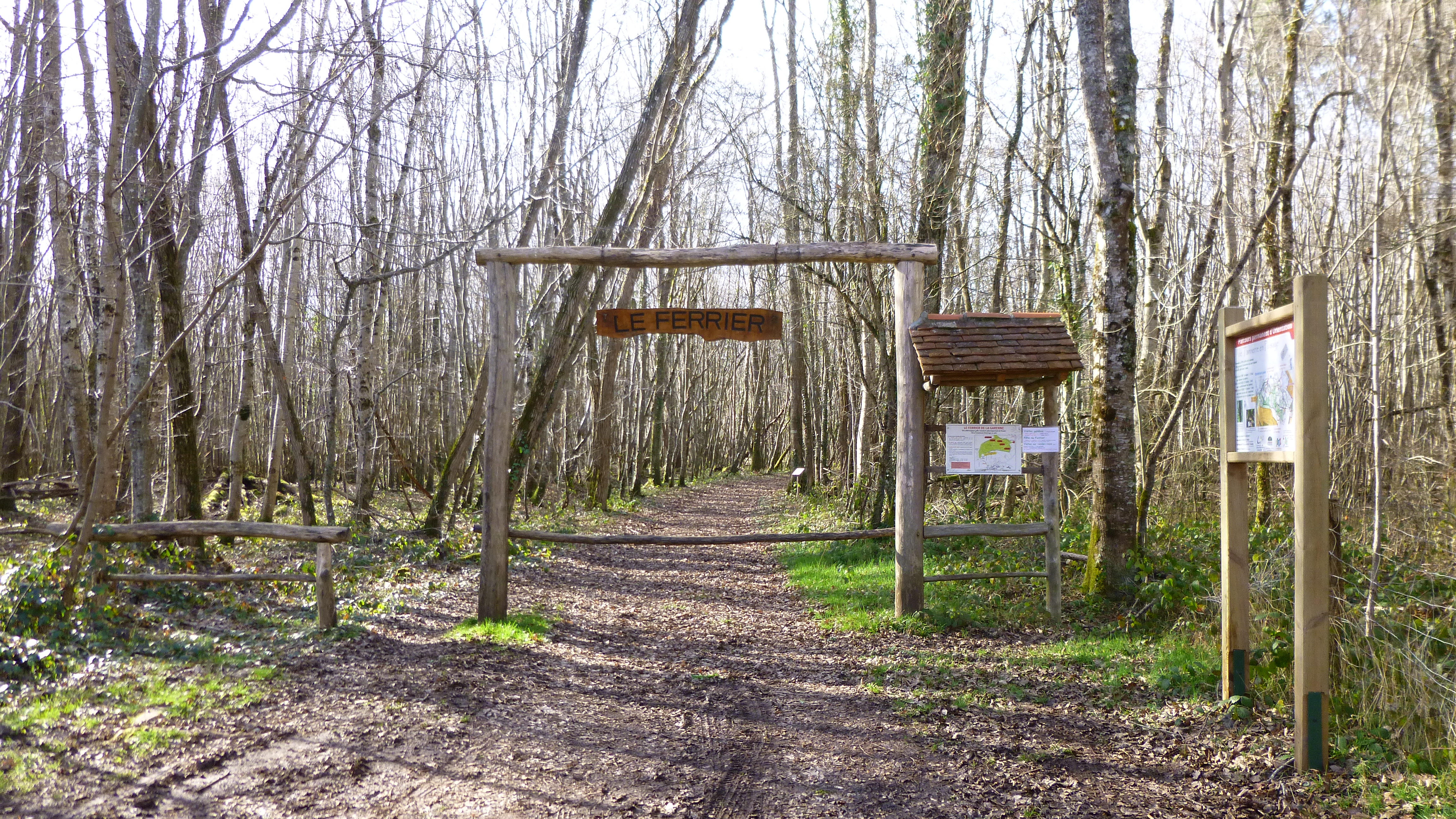 The "ferrier", Tannerre-en-Puisaye, Yonne, Burgundy, France. Entrance by the route des Mussots, seen from the road.